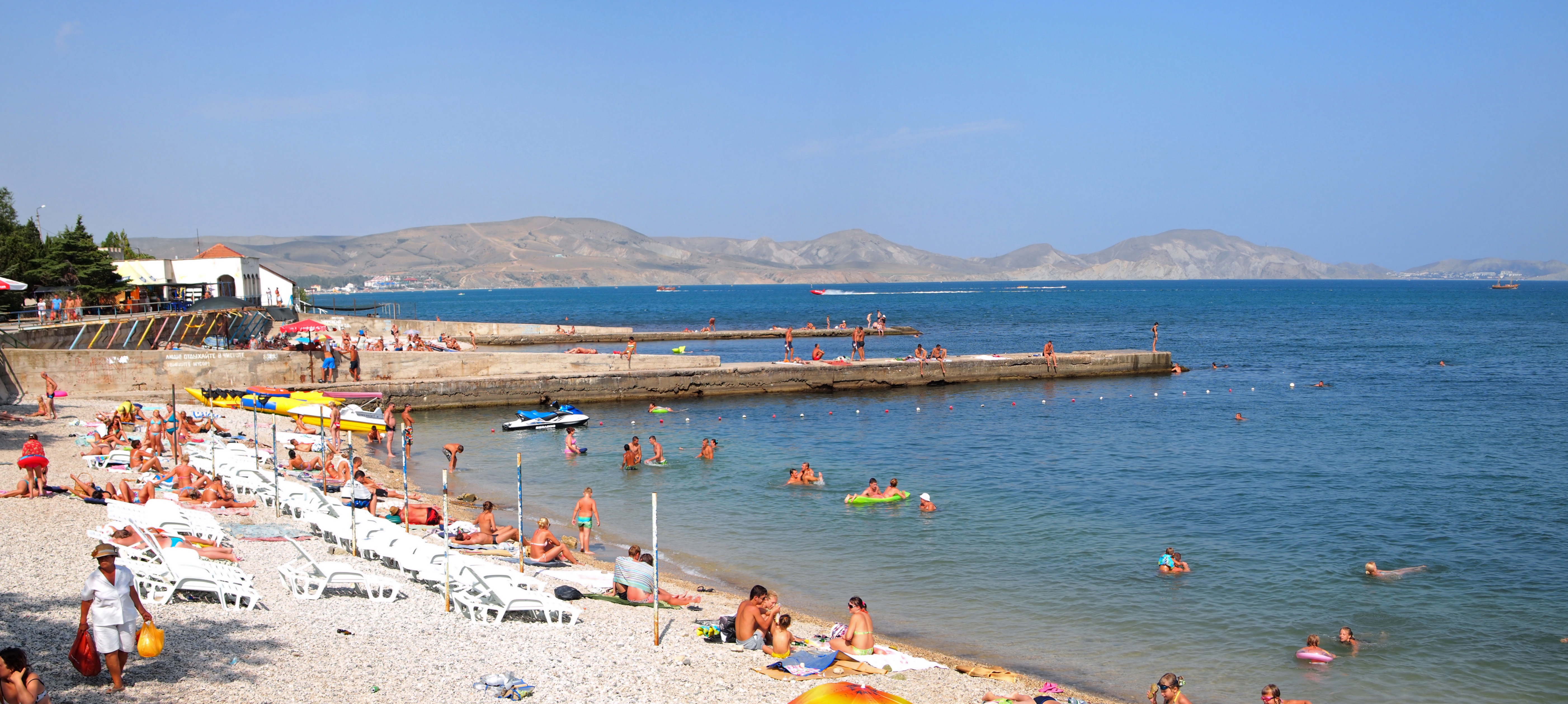 Beach in Koktebel. This photograph was taken with an Olympus E-PL1